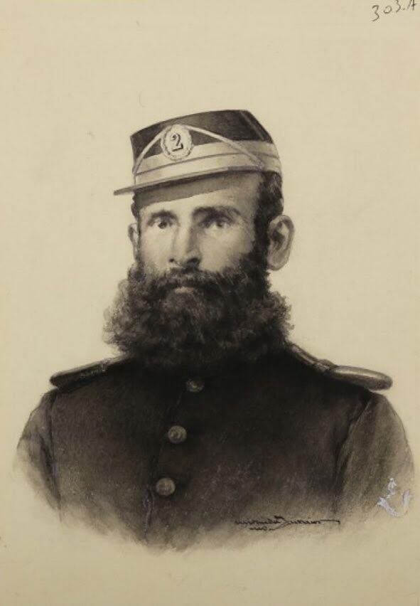 Sketch of colonel Deodoro da Fonseca, 1870